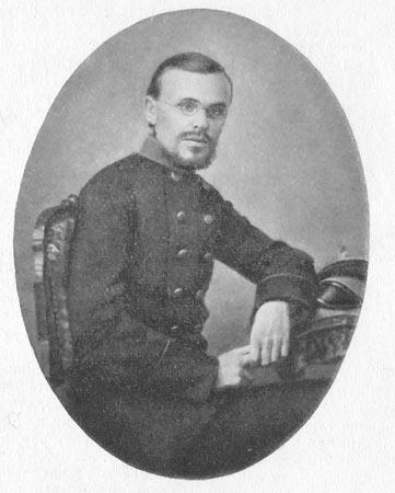 Wladyslaw Borzobohaty (1831-1886) - doctor, physician, January Uprising participant. Potoed between 1855-1861 AD